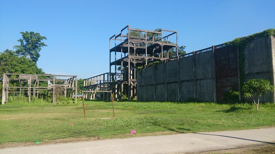 PreWWII historic building